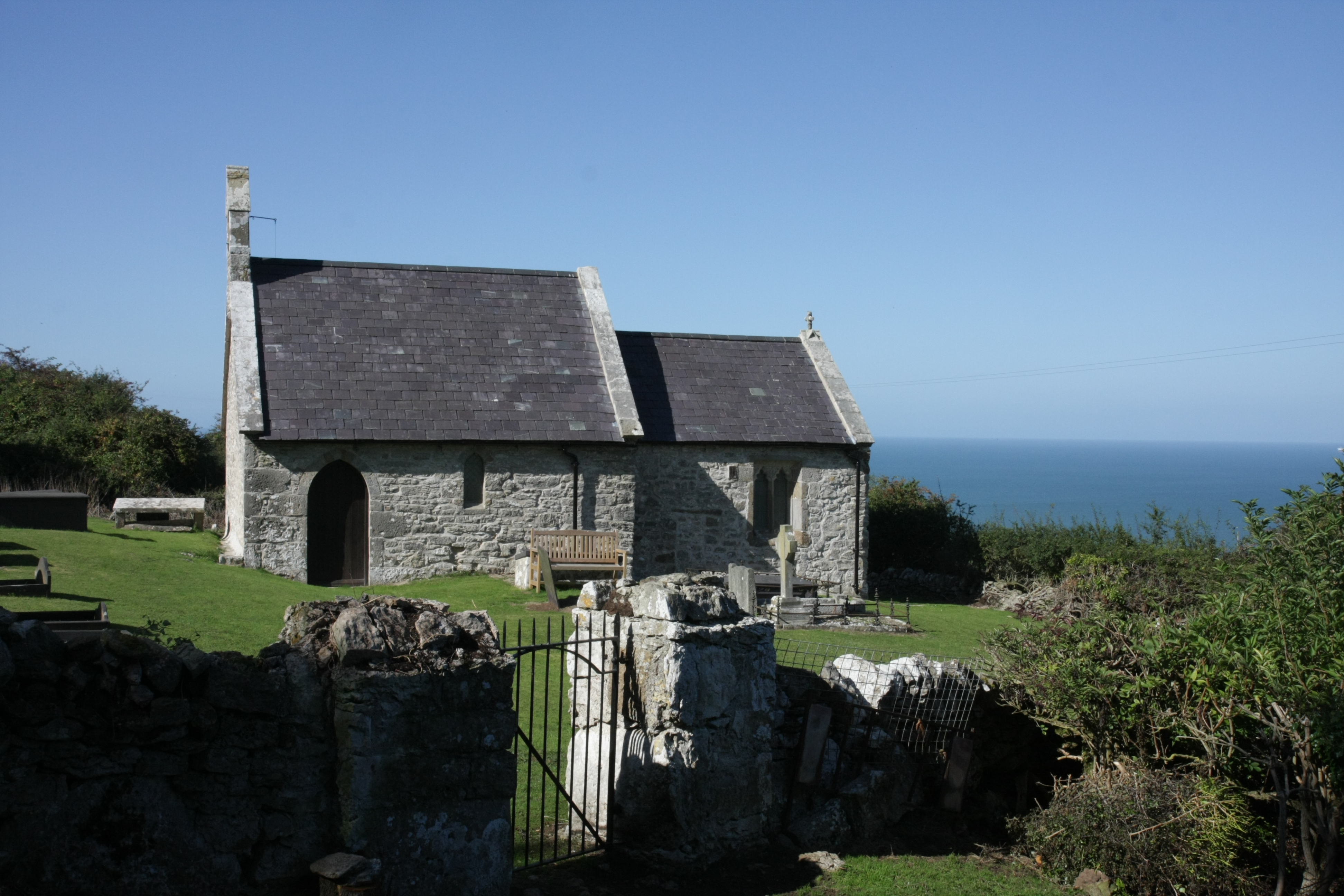 St Michael's Church, Llanfihangel Din Sylwy, Anglesey, Wales. Wikidata has entry Q17741915 with data related to this building.